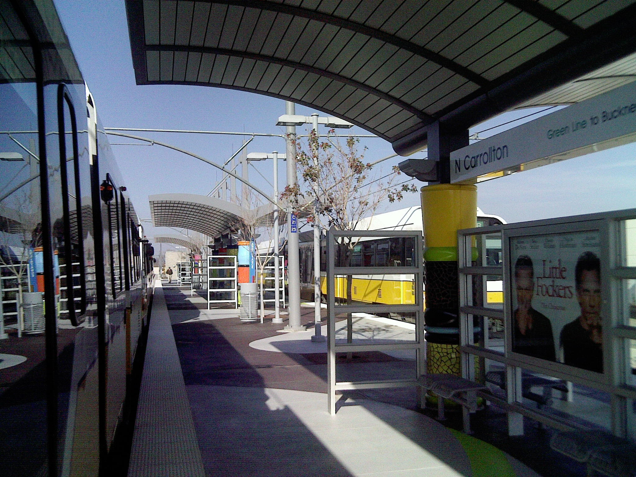 A picture of North Carrollton/Frankford Station on DART's Green Line Light Rail service.